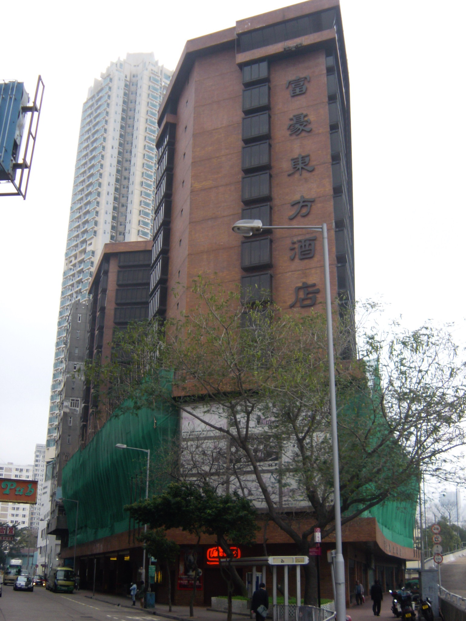 Regal Oriental Hotel